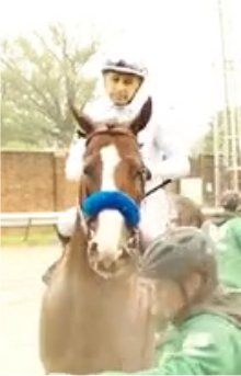 Thoroughbred horse, Justify, with jockey Mike E. Smith entering starting gate before 2018 Kentucky Derby.